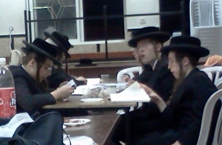 Breslovs teenages